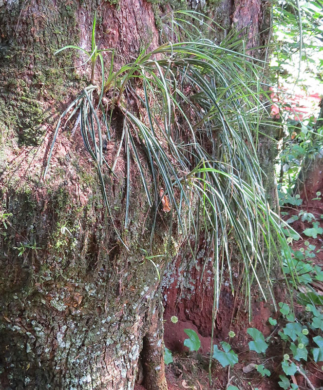 A neotropical epiphyte which goes by names such as Shoestring Fern. Vittariaceae or Pteridaceae family, depending on authority.